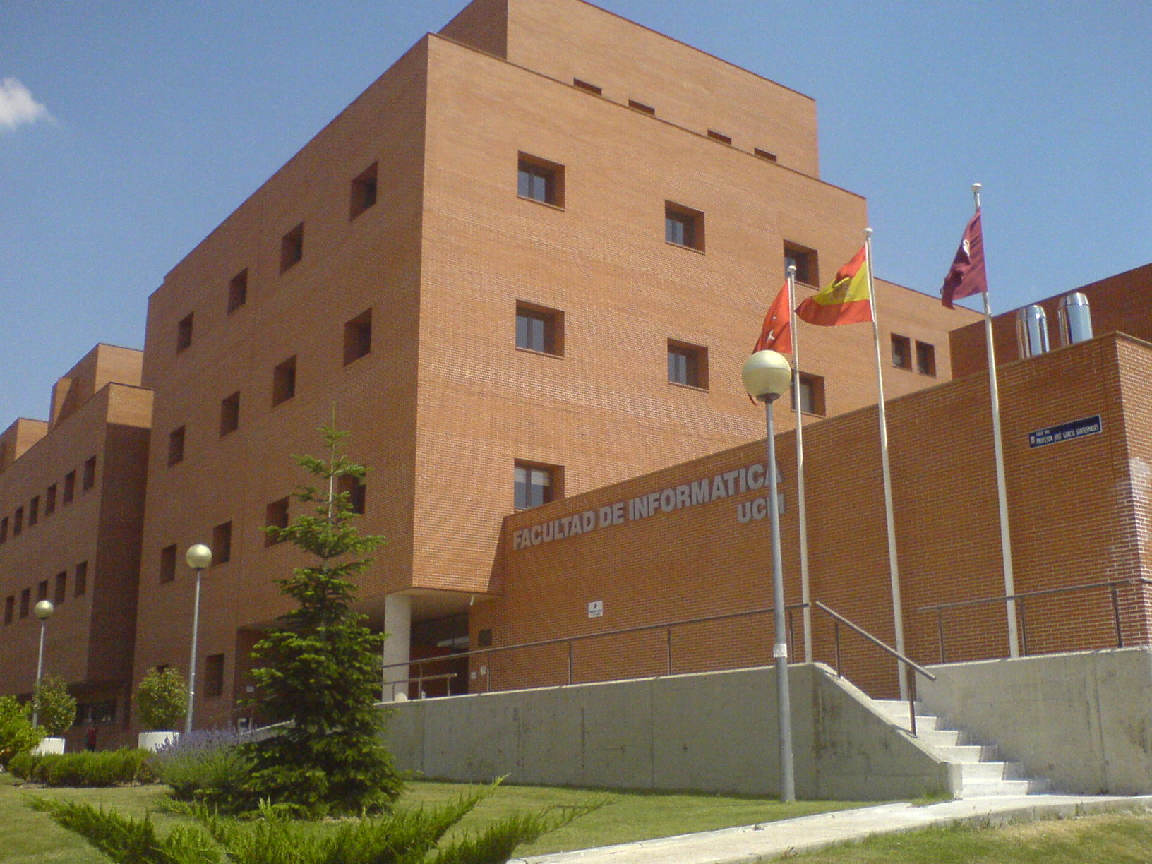 Photo from Faculty of Computer Engineering in Universidad Complutense from Madrid